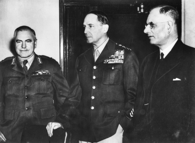 AWM Caption: General MacArthur with General Sir Thomas Blamey and the Prime Minister, Mr Curtin.